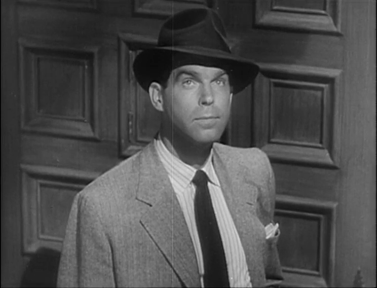 Cropped screenshot of Fred MacMurray from the trailer for the film Double Indemnity